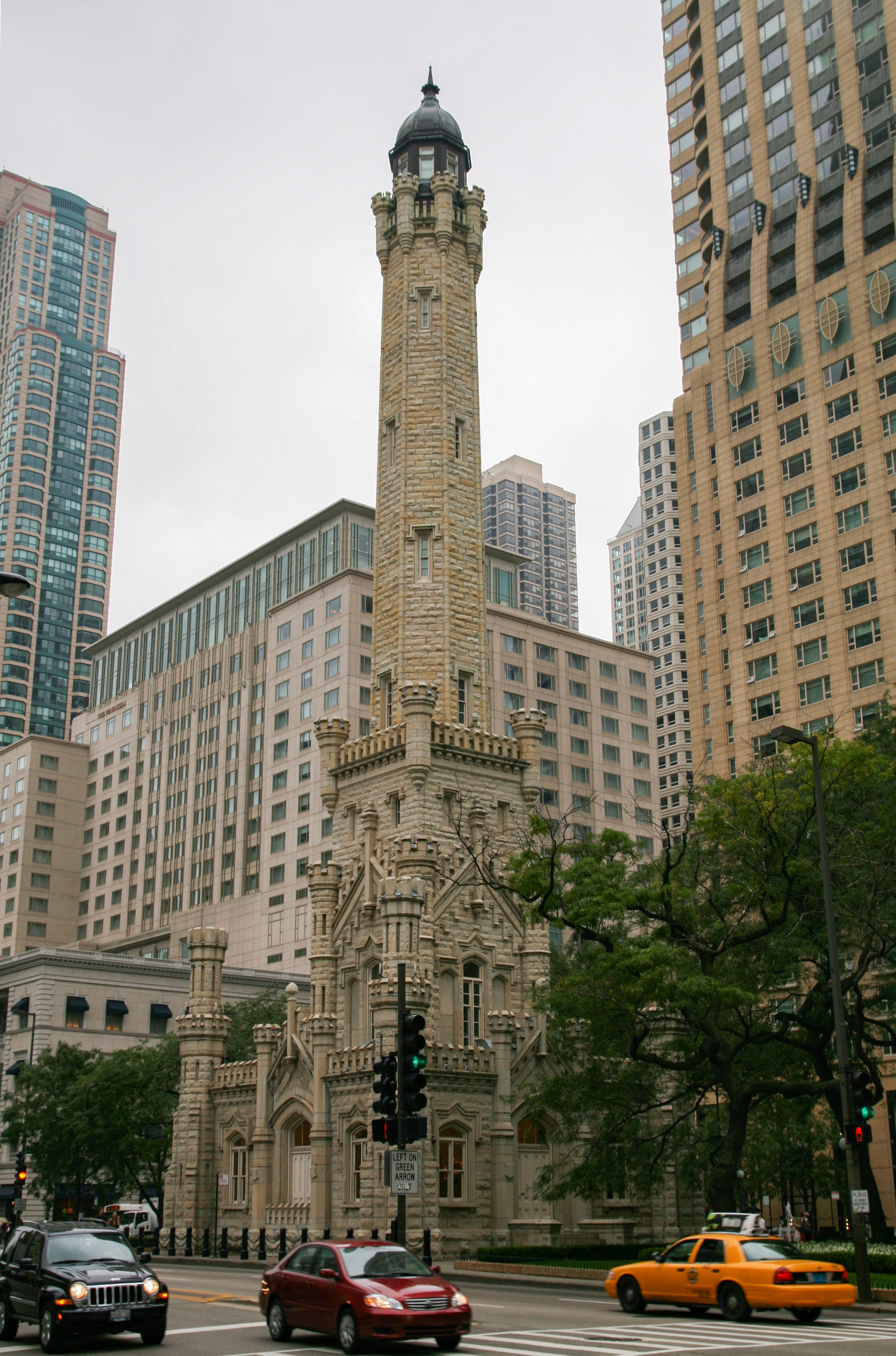 The Chicago Water Tower seen from across the busy Michigan Avenue. Inside the 47 m tall tower there was a 42 m high standpipe to hold water. In addition to being used for firefighting, the pressure in the pipe could be regulated to control water surges in the area.